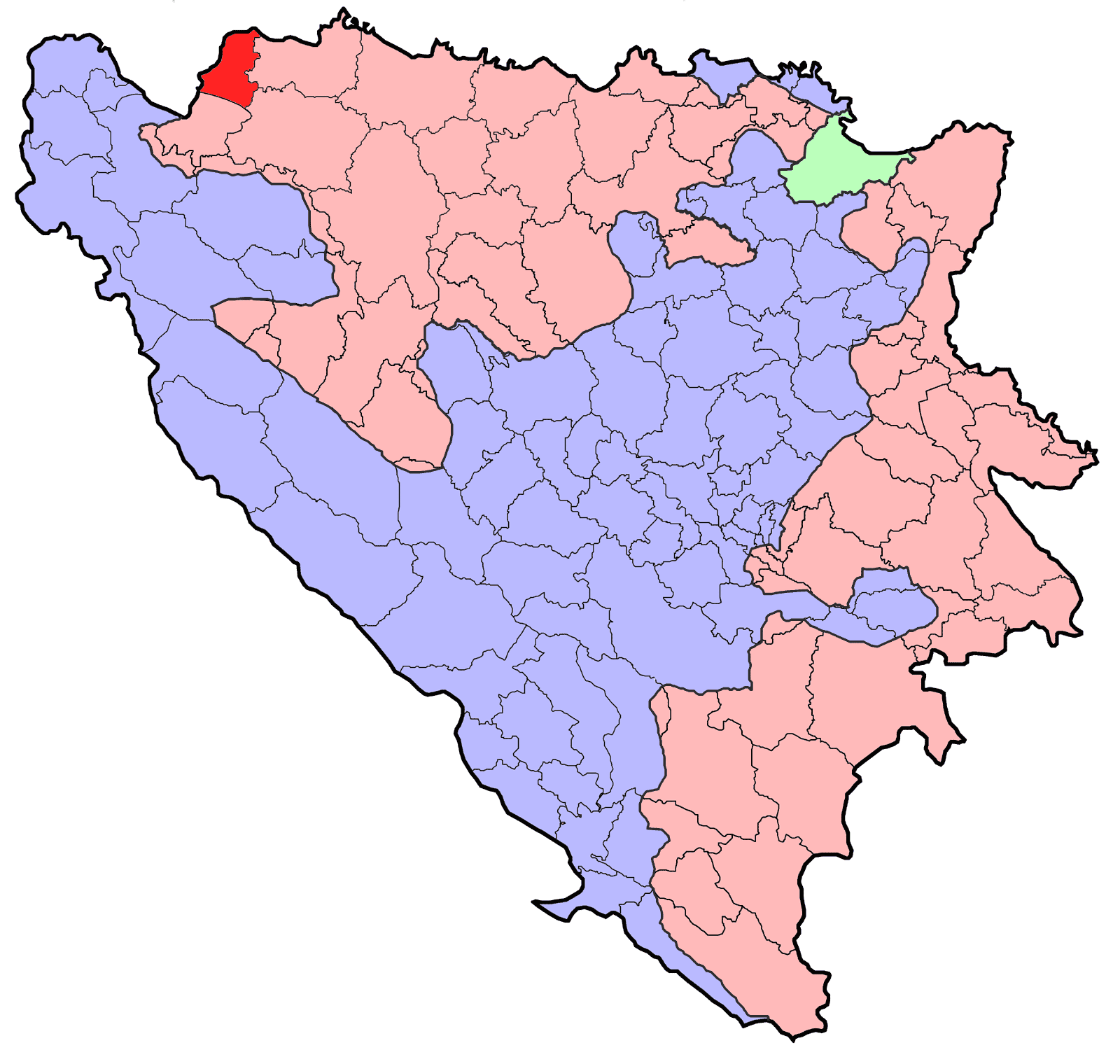 Municipality of Bosanska Kostajnica in Bosnia and Herzegovina